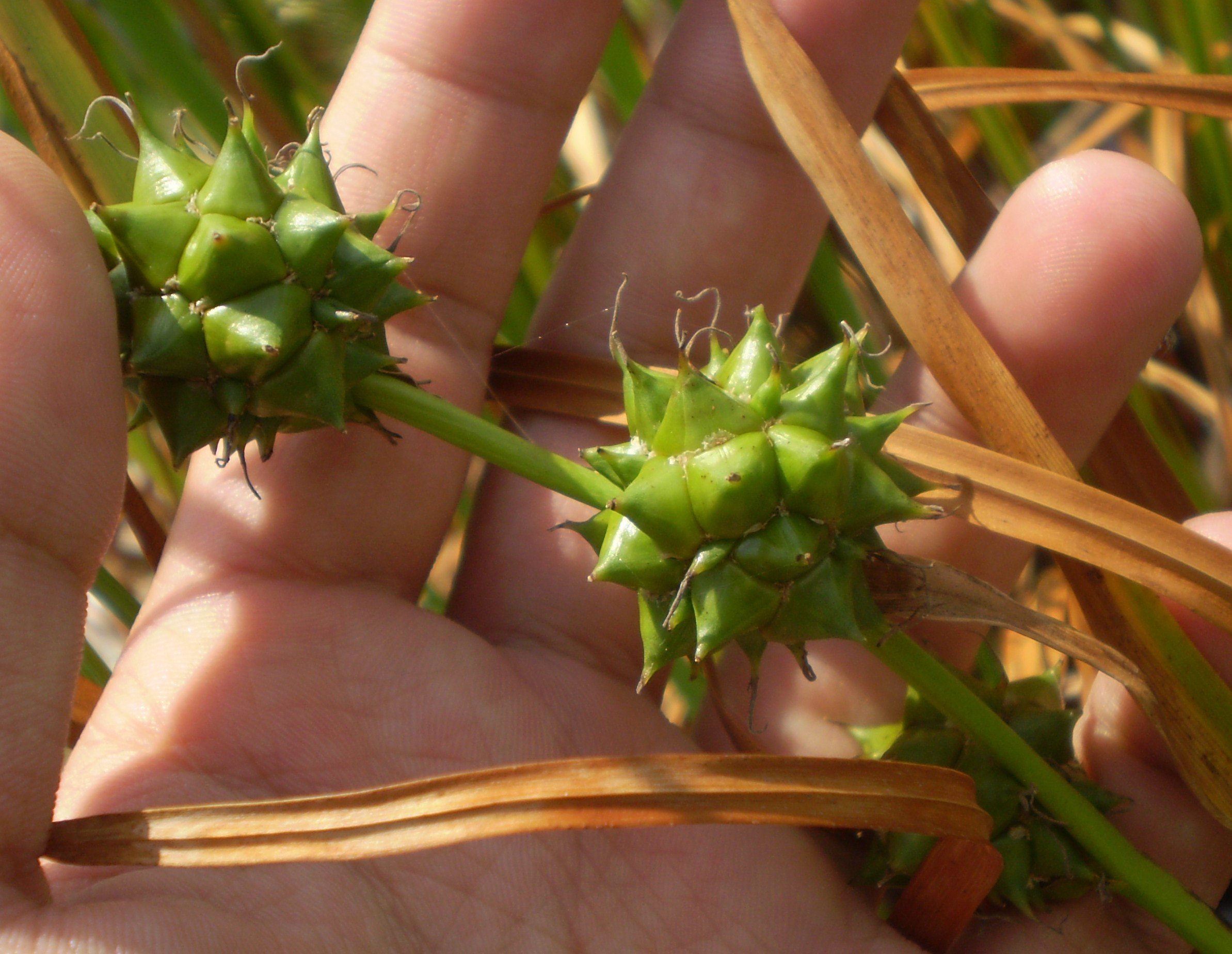 Fruits of Sparganium erectum var. macrocarpum(Mikuri)